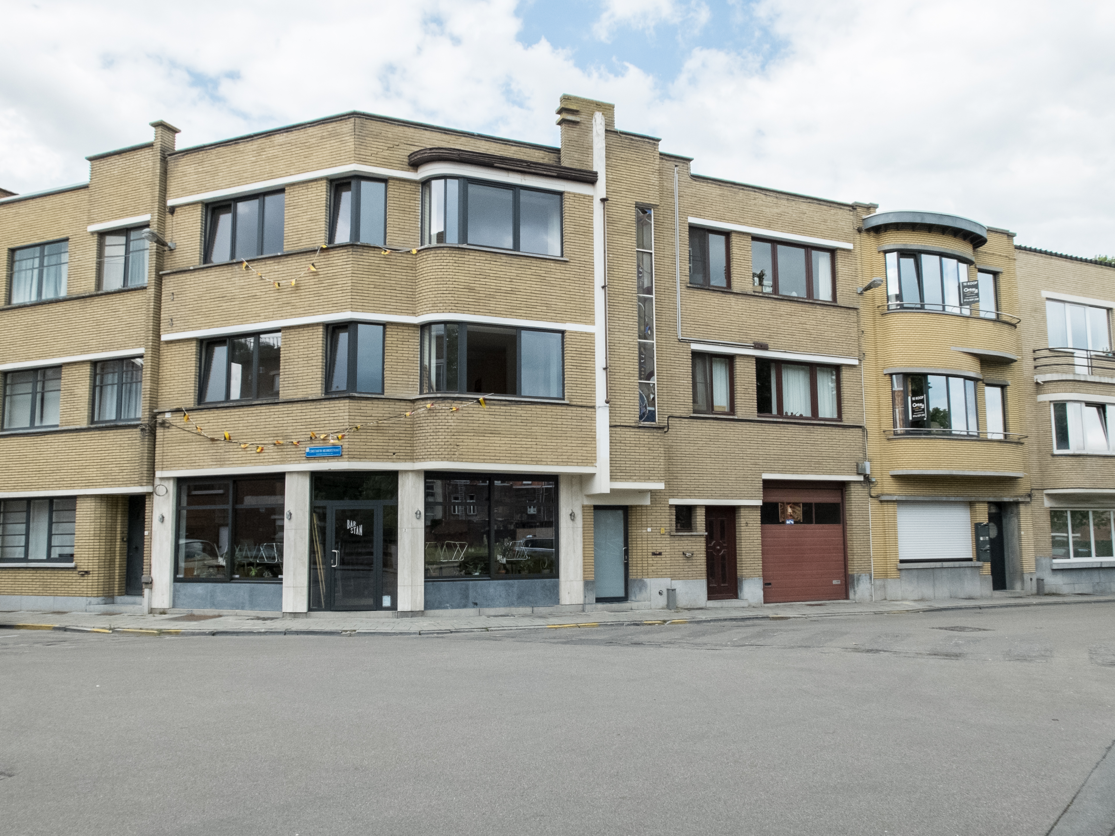 Modernism houses at the corner of Frans Nensstraat and the Constantin Meunierstraat near the Conscienceplein in Leuven, Belgium.